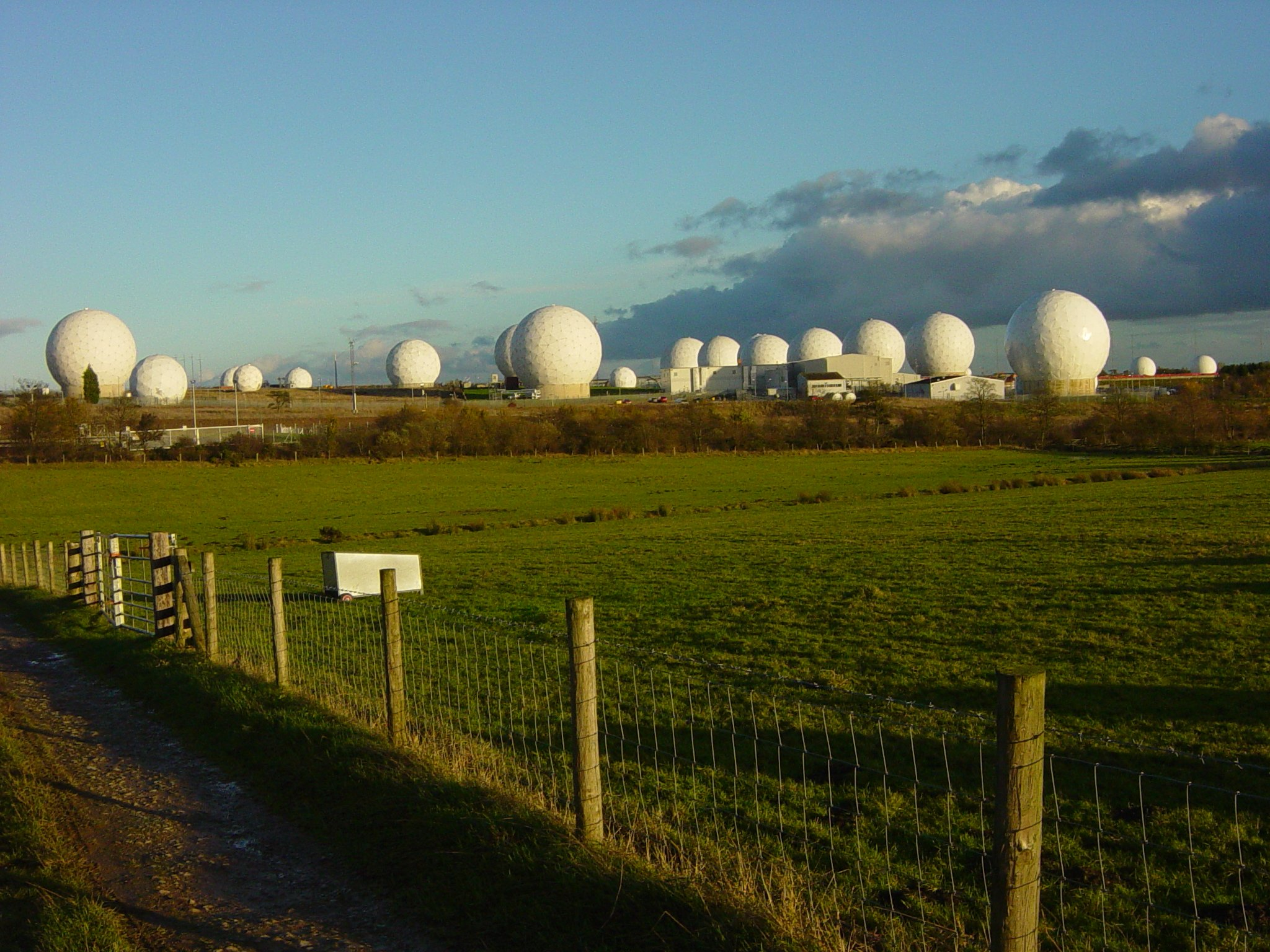 Radomes at Menwith Hill, Yorkshire. Photo taken November 2005.